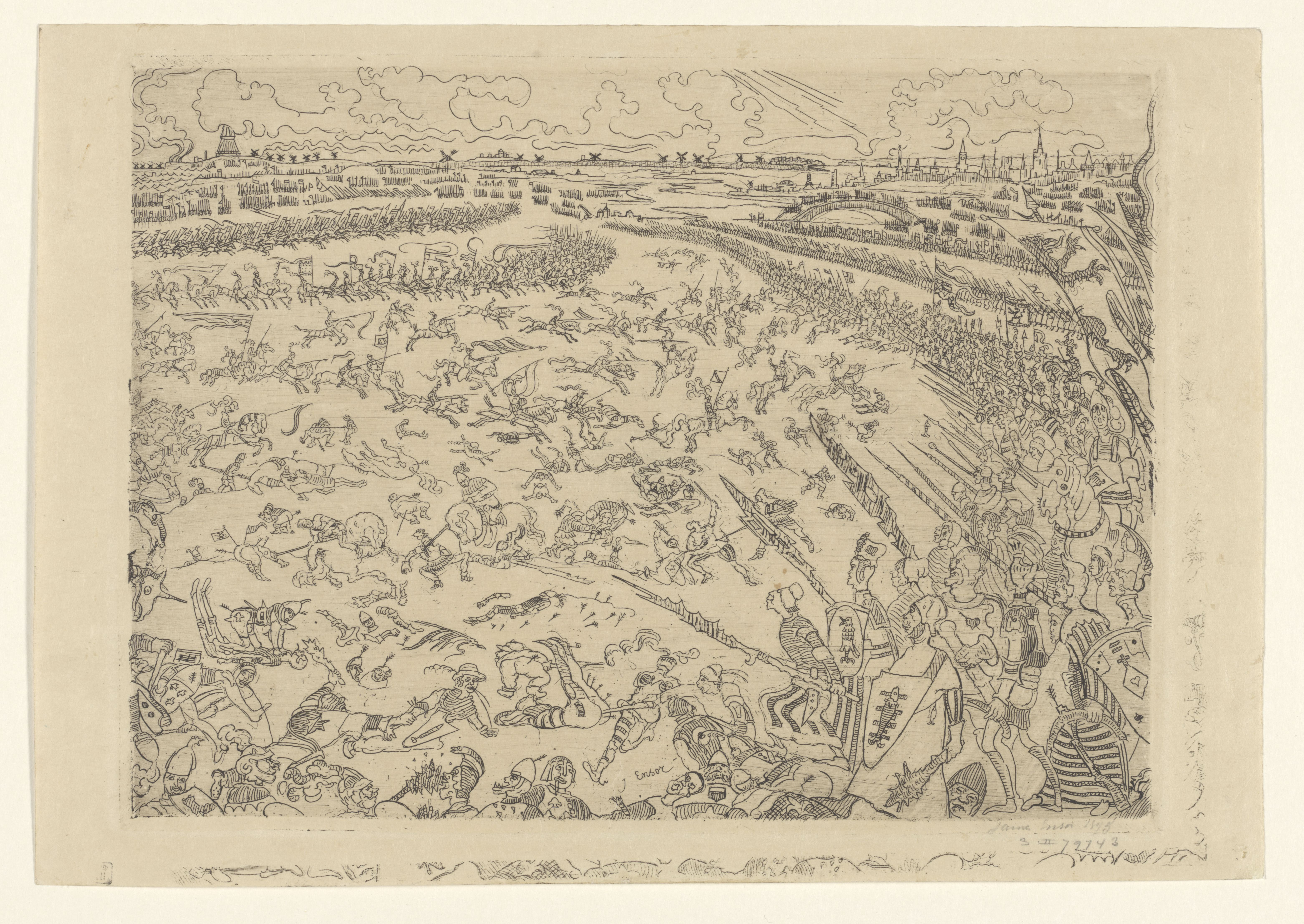 Battle of the Golden Spurs, print by James Ensor, 1895, Prints Department, Royal Library of Belgium, S. II 79743